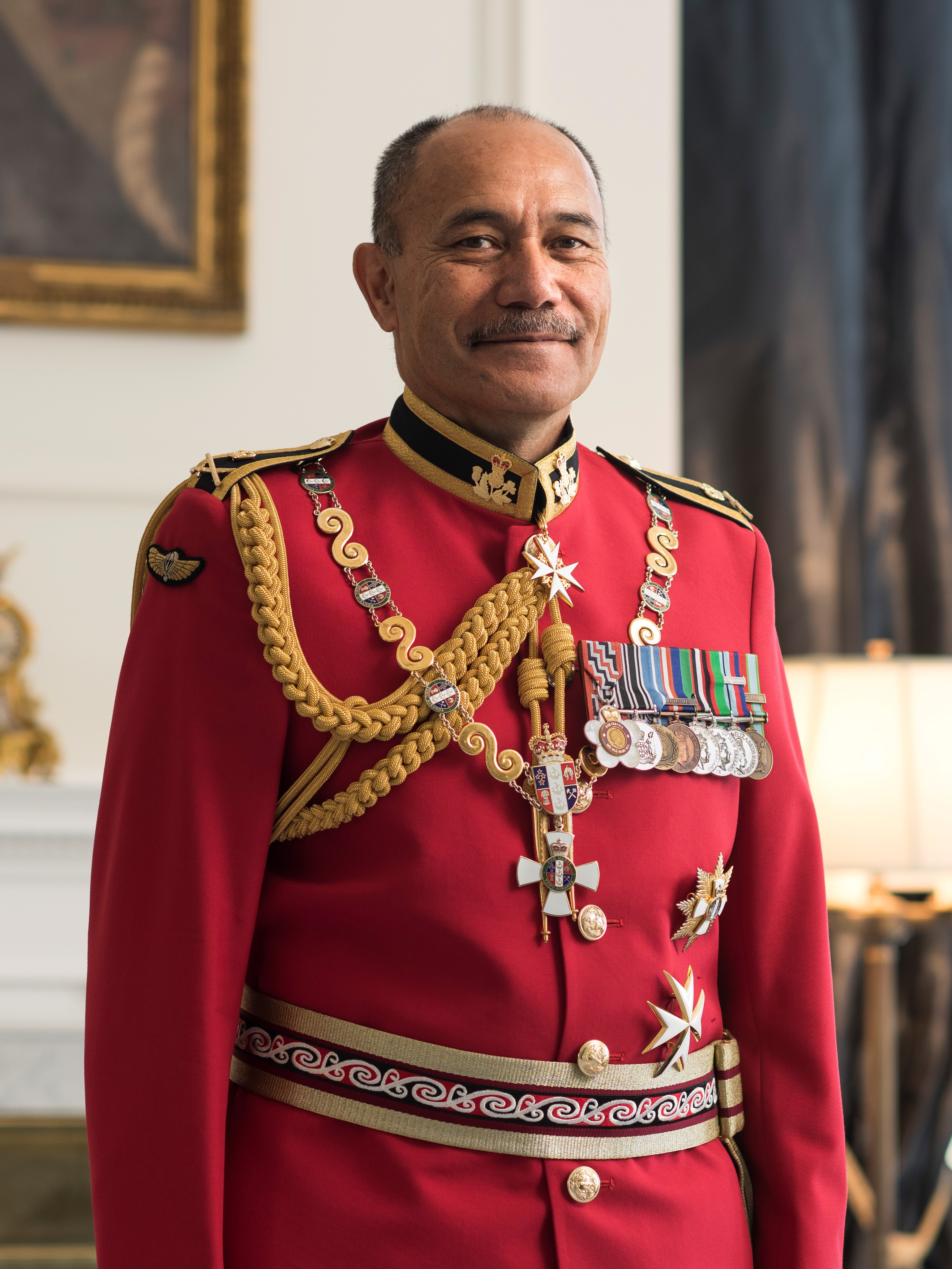 Jerry Mateparae, 20th Governor-General of New Zealand